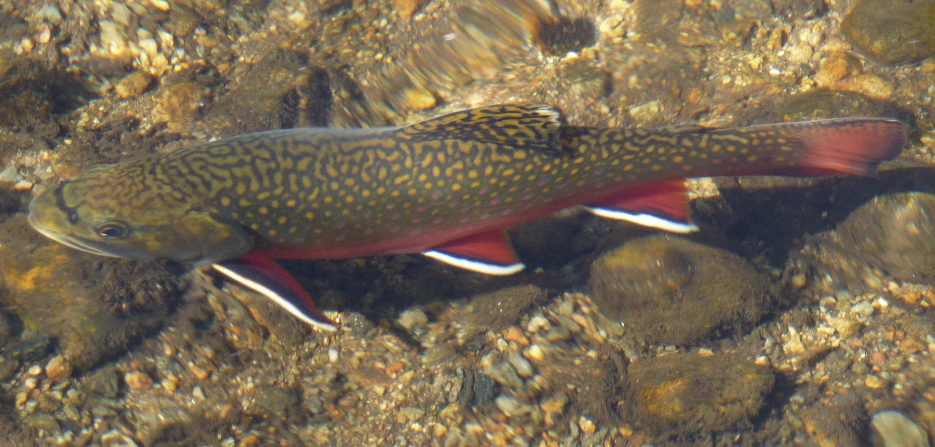 Brook trout in Sprague Lake, Rocky Mountain National Park